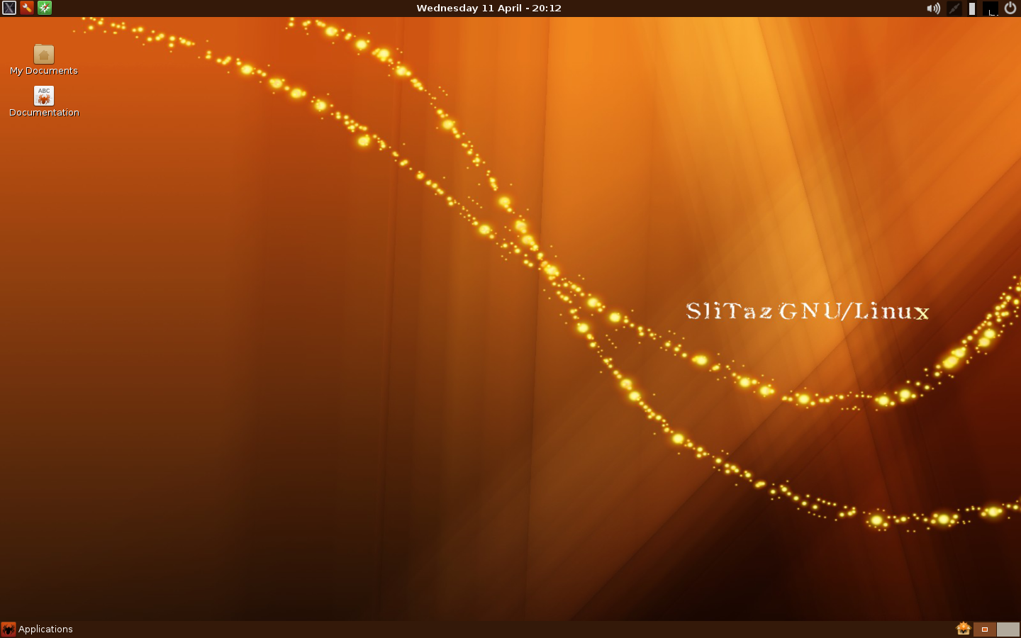 SliTaz 4.0 Screenshot